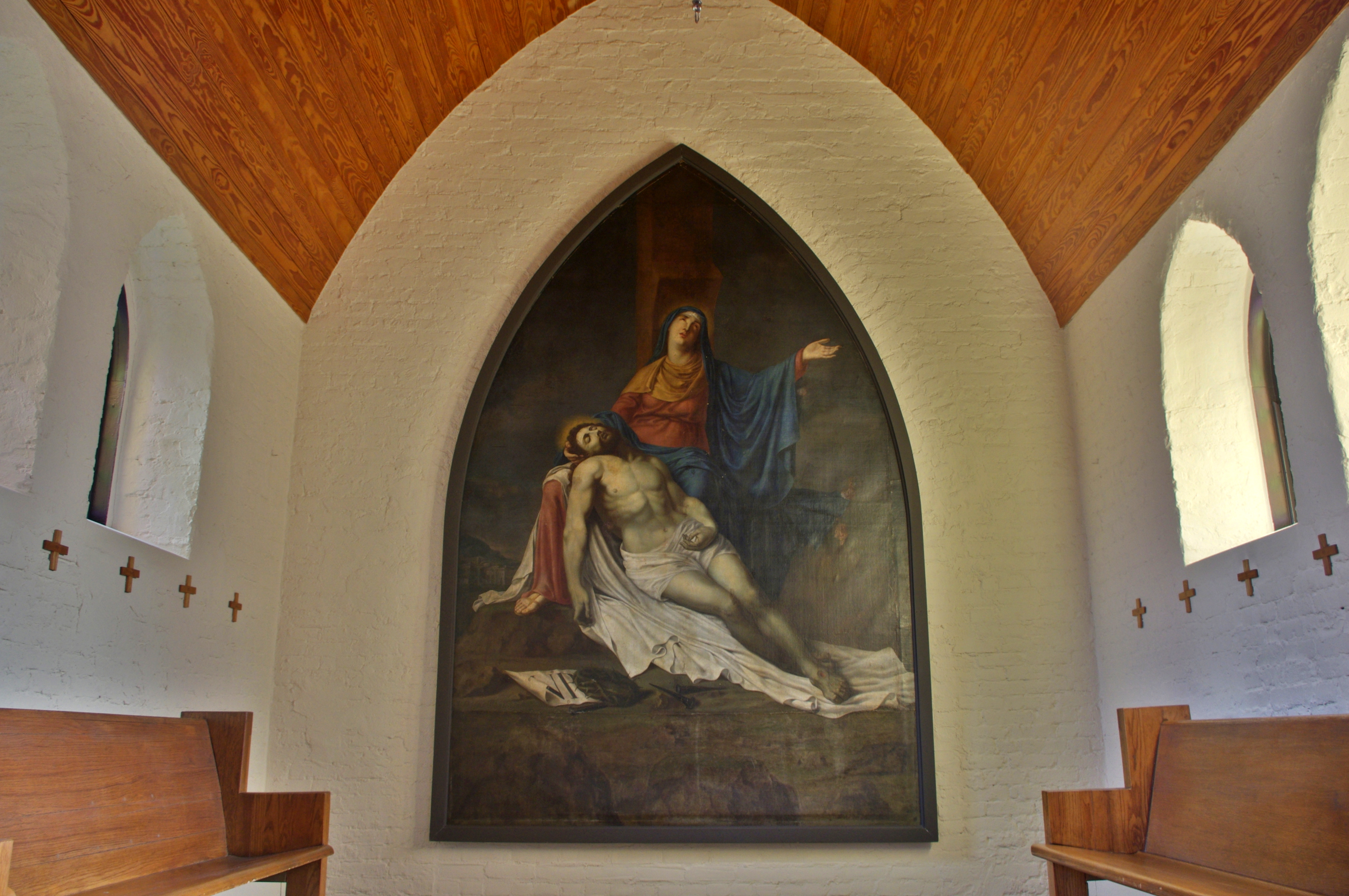 Loretto Motherhouse (Nerinx, Kentucky) - church, Pietà fresco